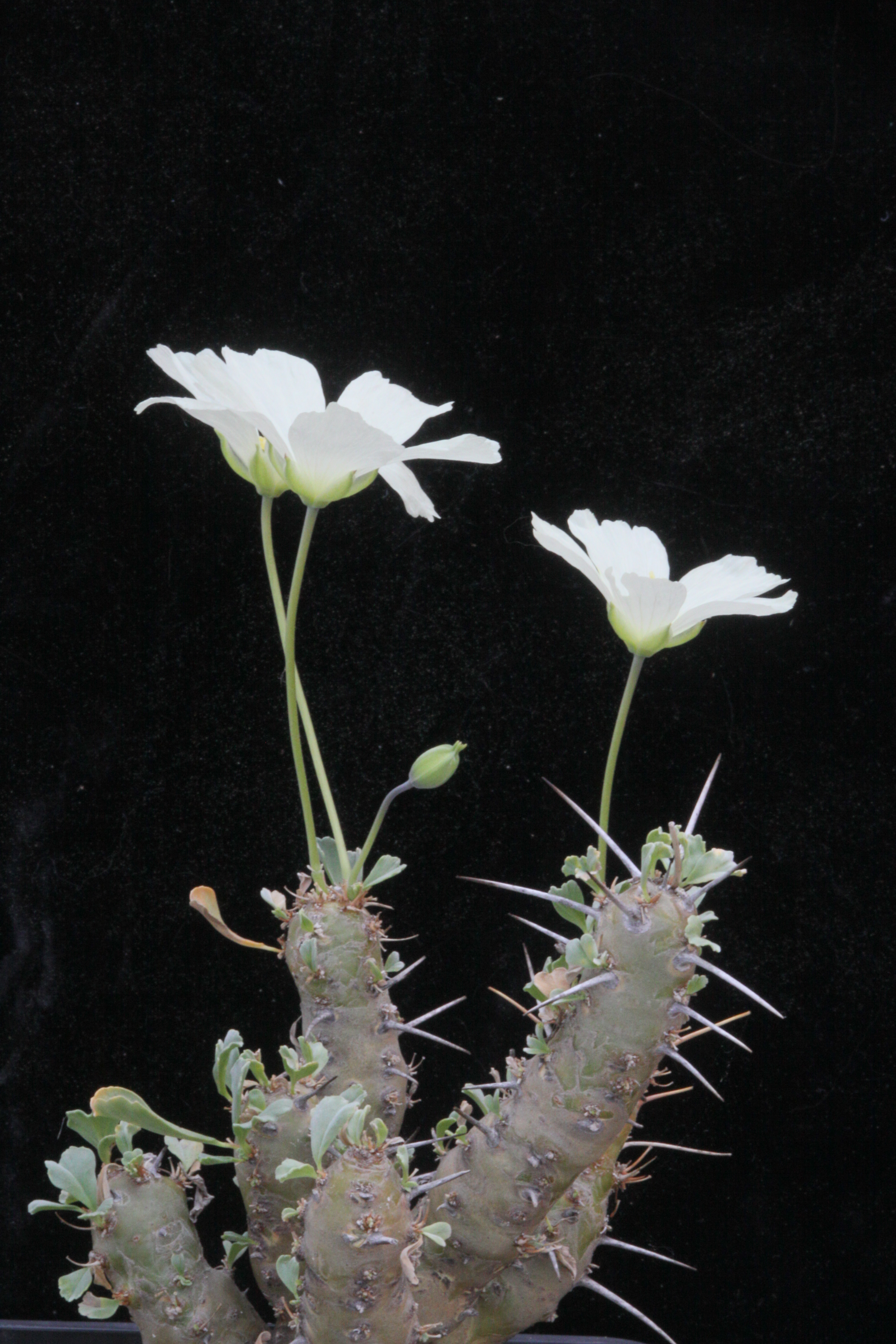 Bushman Candle, Sarcocaulon crassicaule